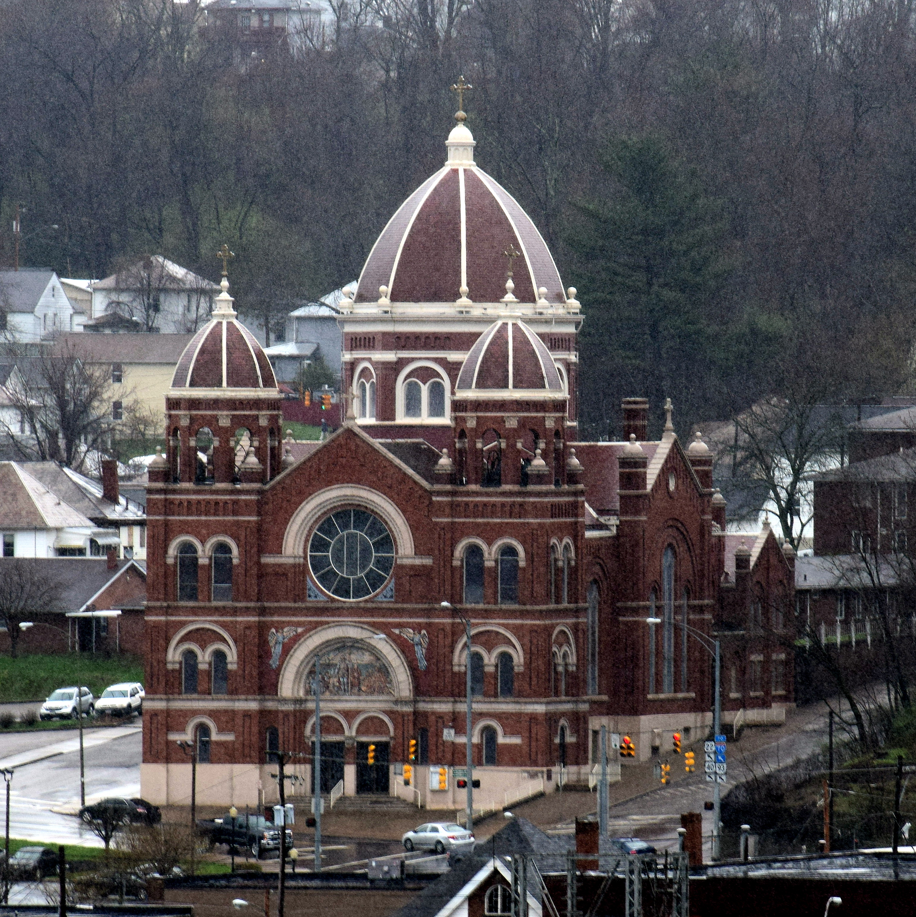 Saint Nicholas Church (Zanesville, Ohio) - view from Putnam Hill Park